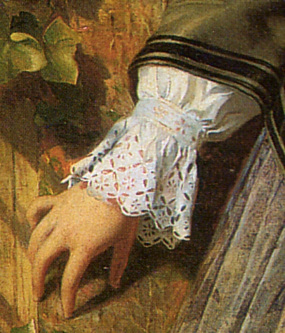 Borderie Anglaise cuff, detail from Broken Vows